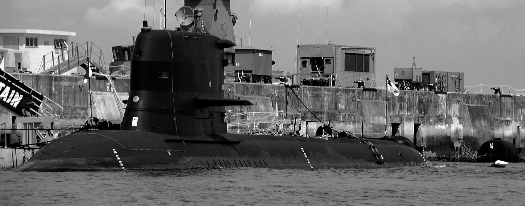 The submarine R.S.S. Chieftain of the Singapore Navy, formerly HMS Sjöhunden II of the Swedish Navy.